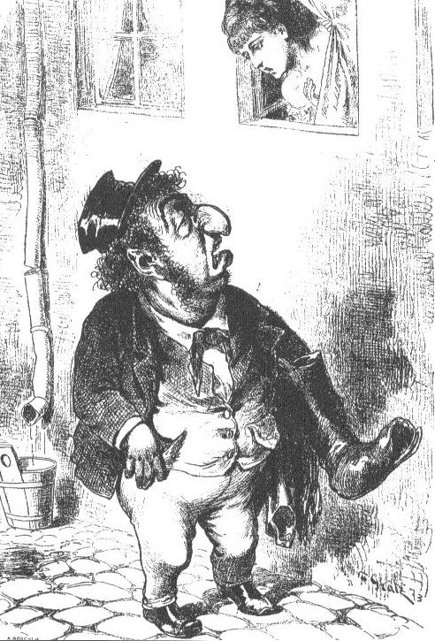 Caricature of a "baron" reduced (back?) to street pedler shortly after the crash at the stock exchange in Vienna (9th May 1873); man stereotyped "Jewish" caricature profile used by cartoonists of the era.